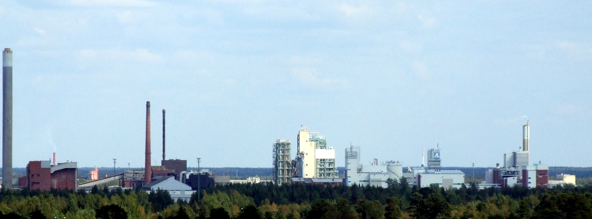 Takalaanila industrial area in Oulu, Finland.